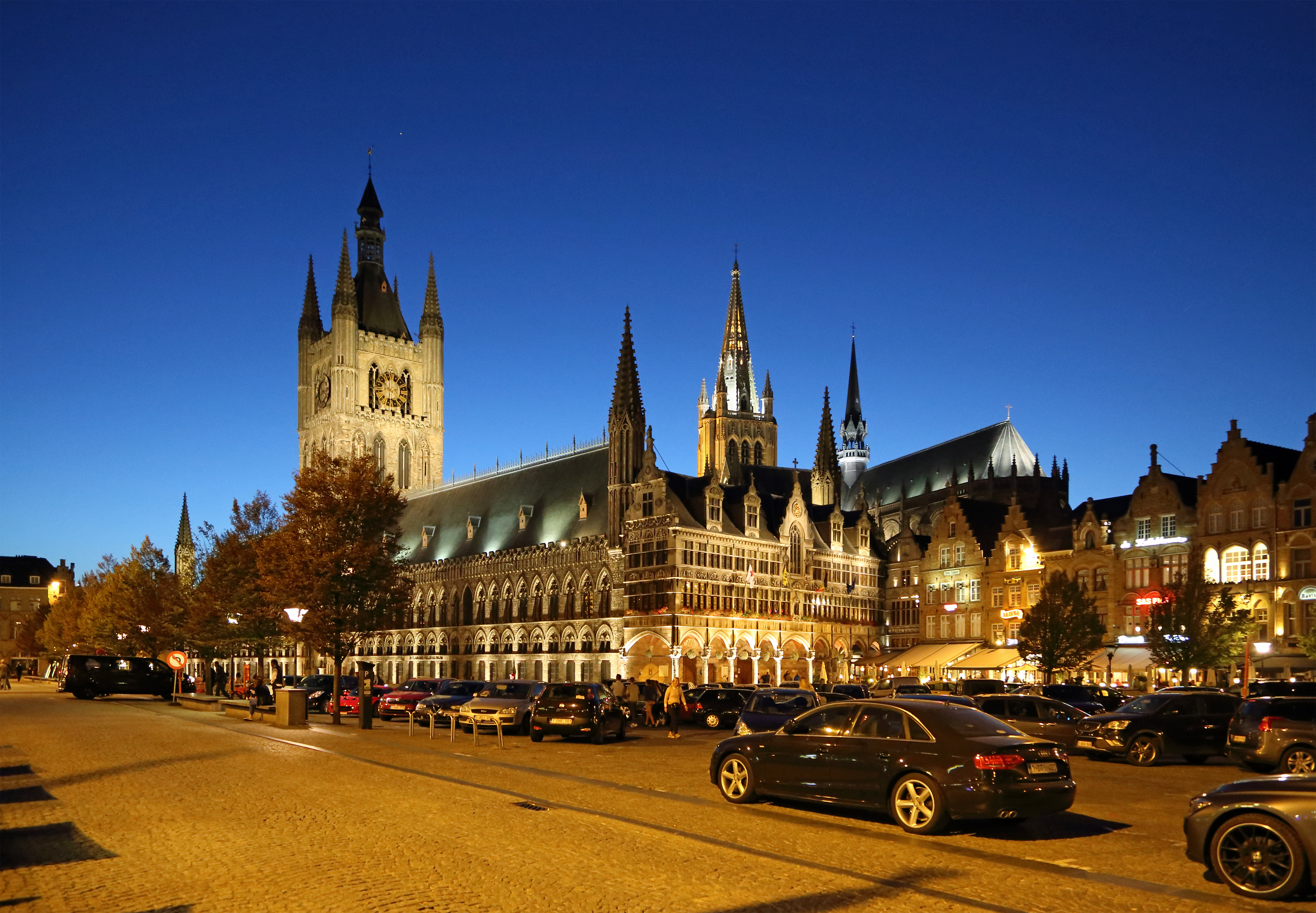 Ypres (Belgium): Grote Markt (Market Place) and Cloth Hall